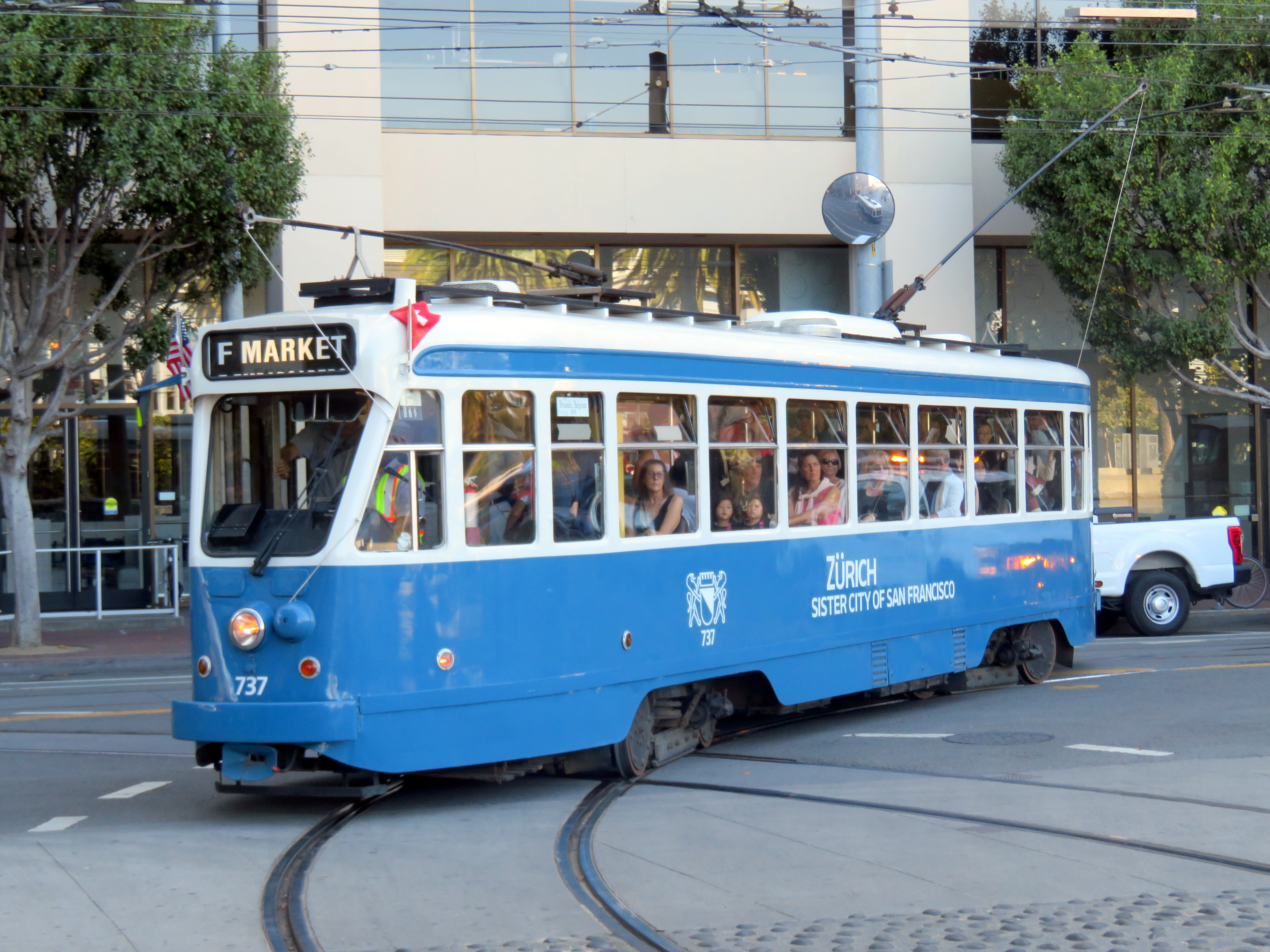 Muni streetcar 737 during onto Don Chee Way during Muni Heritage Weekend in September 2019. Muni 737 is ex-Brussels 7037, renumbered 737 and painted in a historic livery of Zürich, Switzerland, which became one of San Francisco's sister cities in 2003. (This type of streetcar never operated in Zürich.) Car 737 was built in 1952 by La Brugeoise, of Belgium, for Brussels and was acquired by San Francisco Muni in 2004, and was repainted and renumbered in 2005.